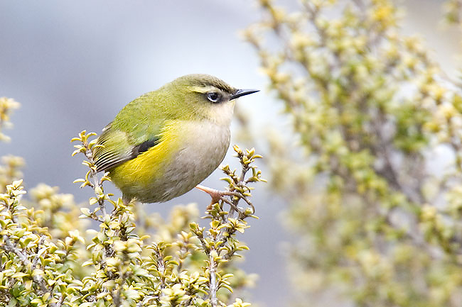 New Zealand Rockwren (Xenicus gilviventris, cat.) Xenicus gilviventris, Pīwauwau, South Island Wren, know in New Zealand as the Rock Wren. Endemic to New Zealand.